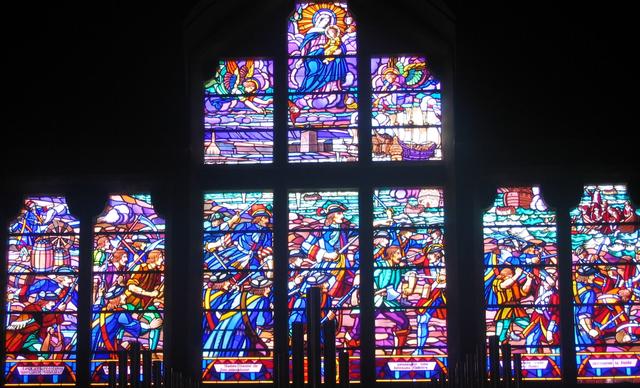 Stained glass in the church of Saint-Remi representing the battle of 18 June 1694, Camaret-sur-Mer